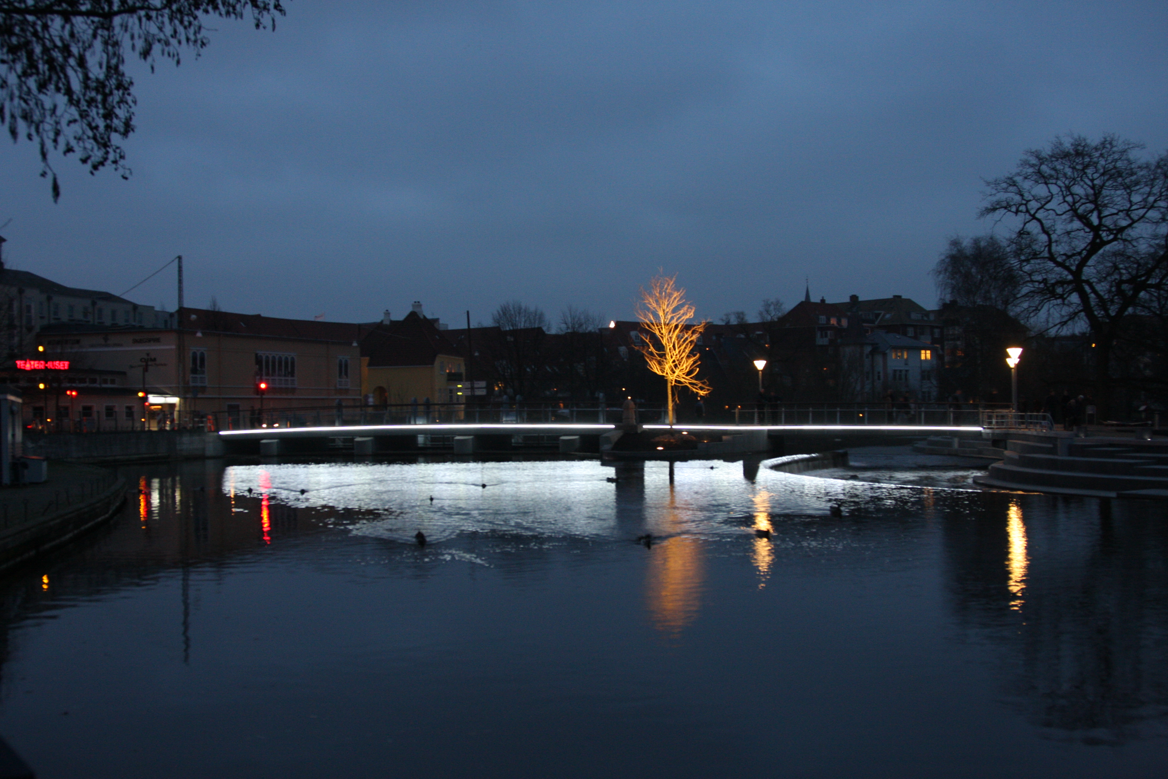 New (replaced) bridge across Odense River in the Munke Mose park. Image shot at dusk.